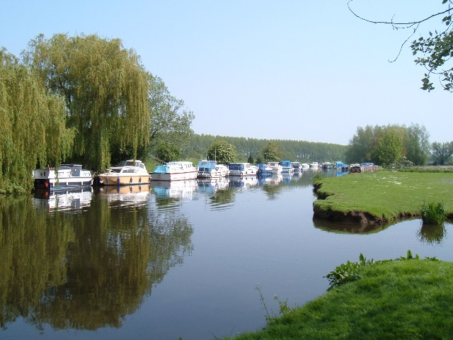 The River Wissey at Hilgay. A view of some rivercraft on the River Wissey at Hilgay.